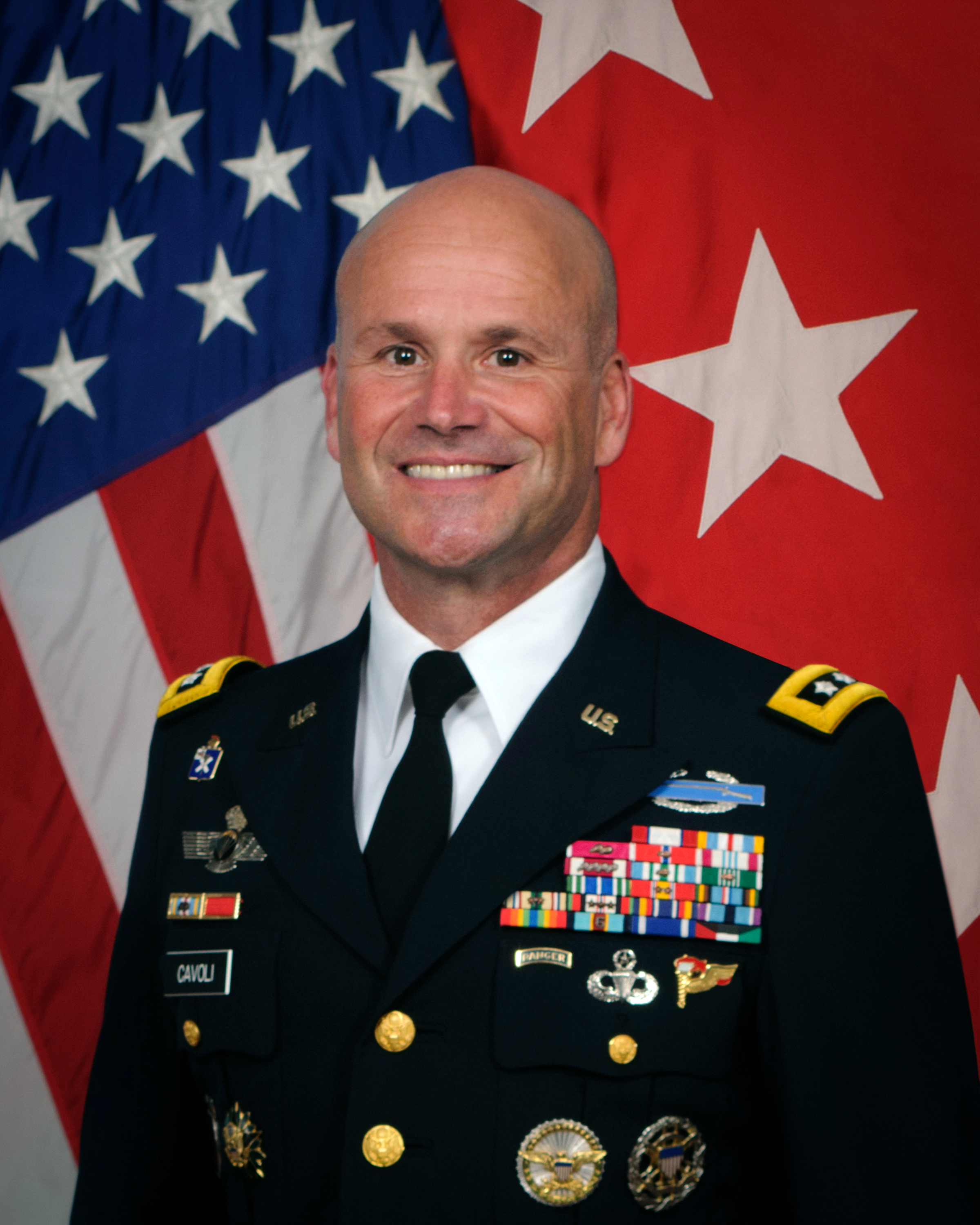 Lt. Gen. Christopher G. Cavoli